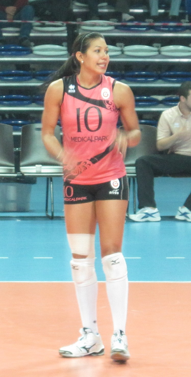 Puerto Rican volleyball player Karina Ocasio